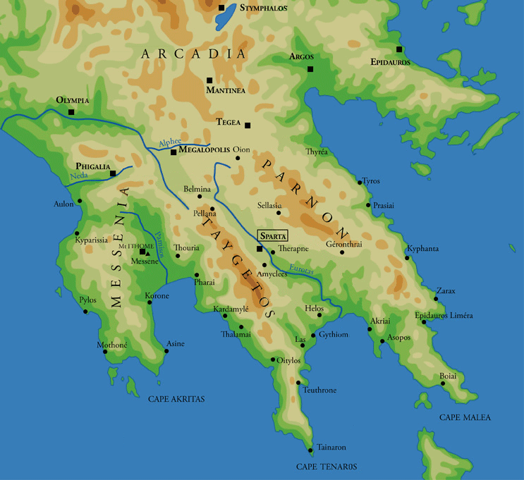 Map of Southern Peloponessus